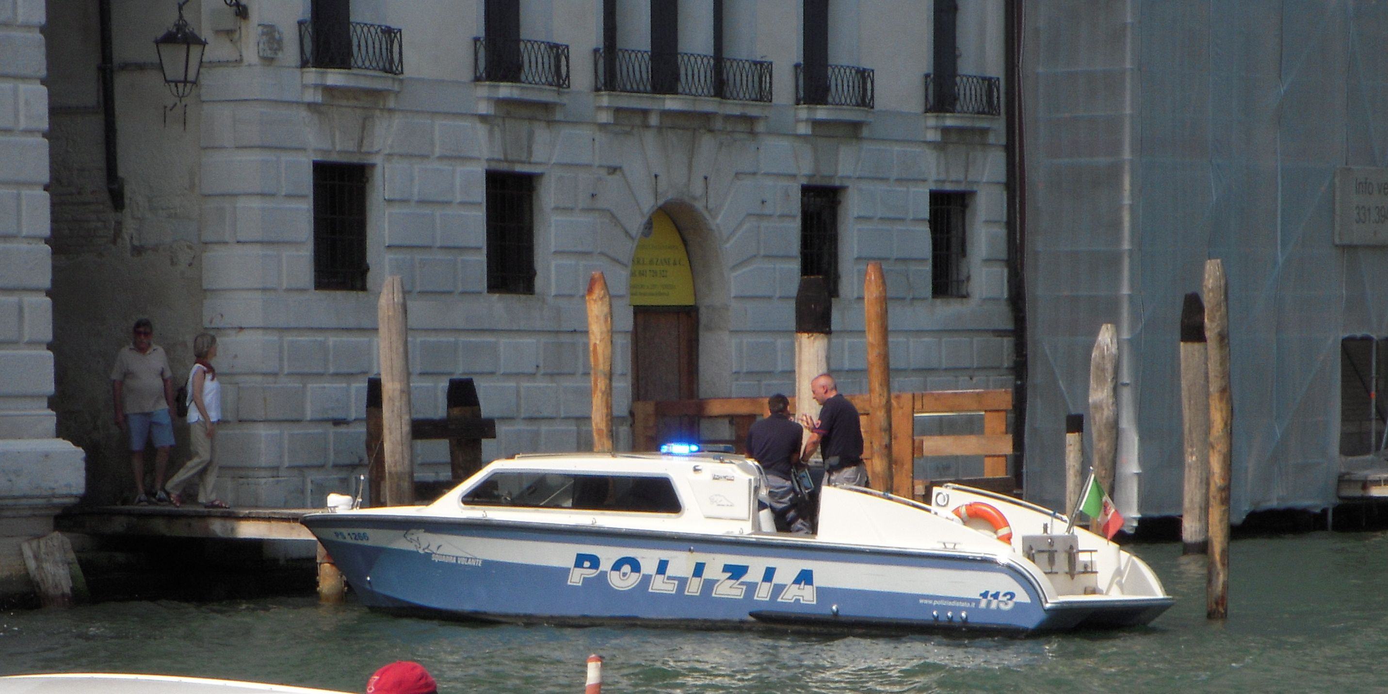 Police boat on Canal Grande in Venice. August 12, 2012.